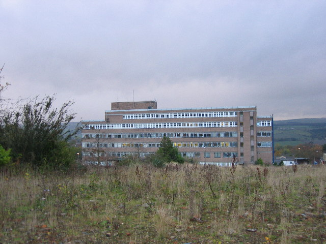 Shotley Bridge Hospital. View of the current main hospital building in use today, the old hospital buildings out of shot to the right.